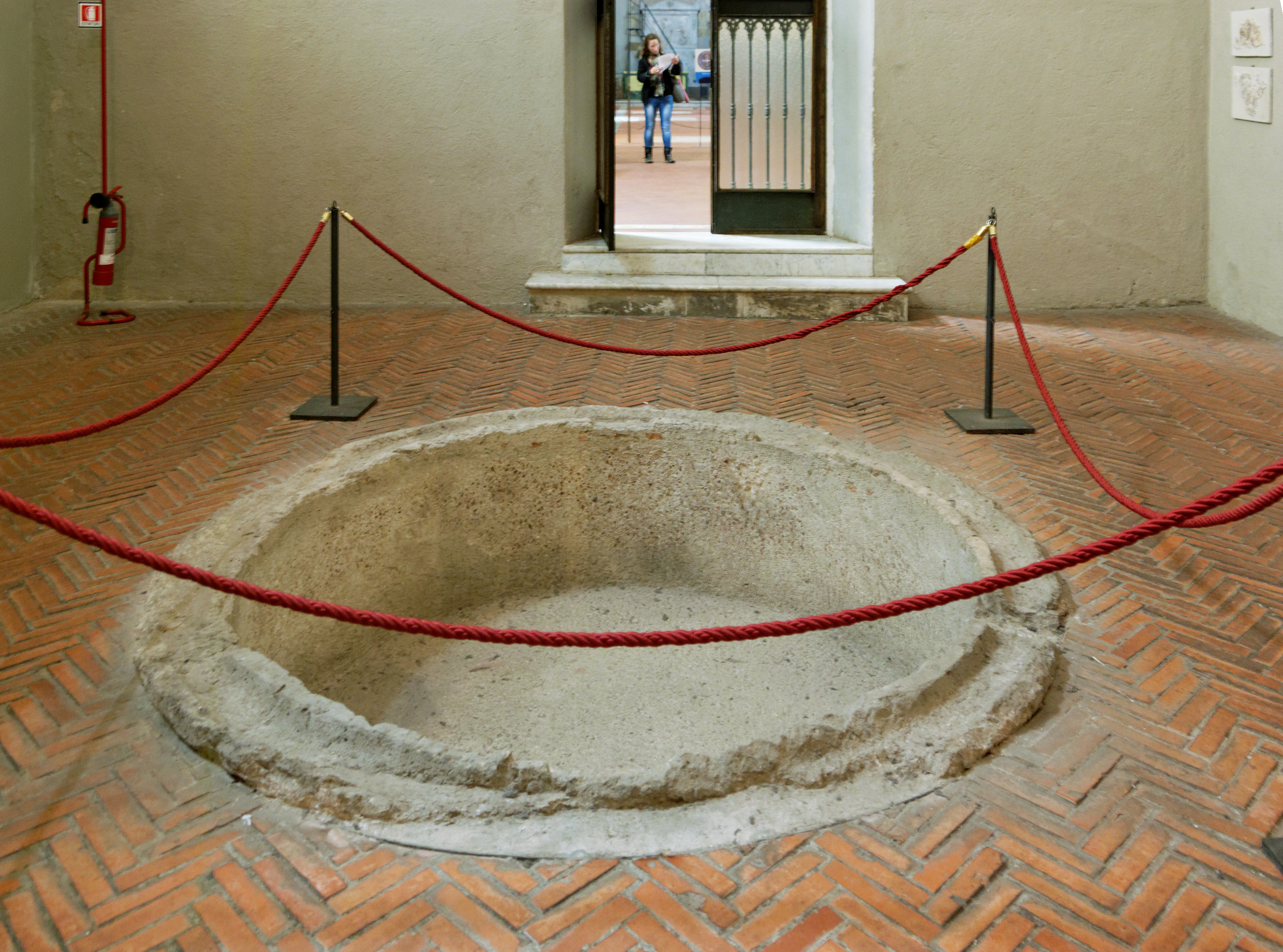 Naples, cathedral, Batistery of San Giovanni in Fonte